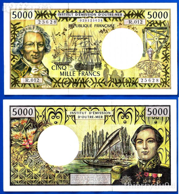 5000 pacific francs bill